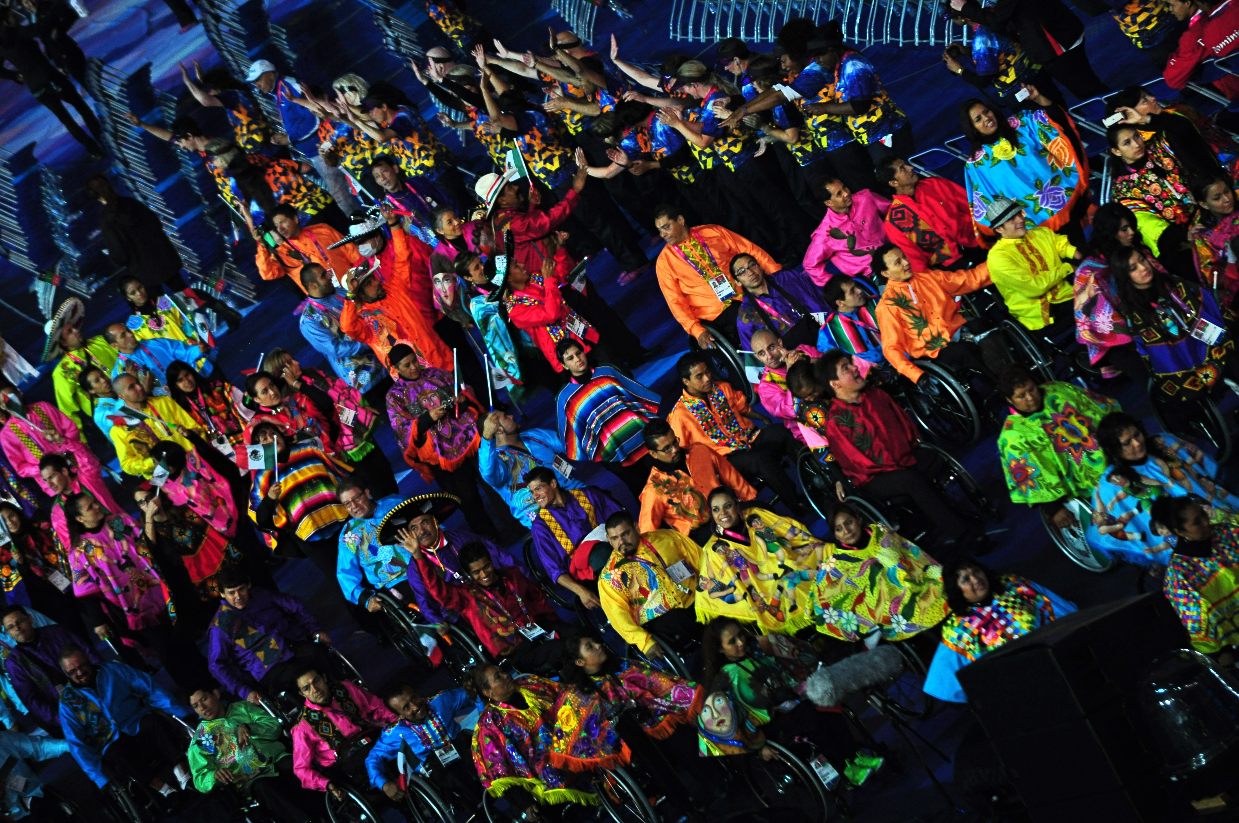 Extremely colourful Mexican paralympic team